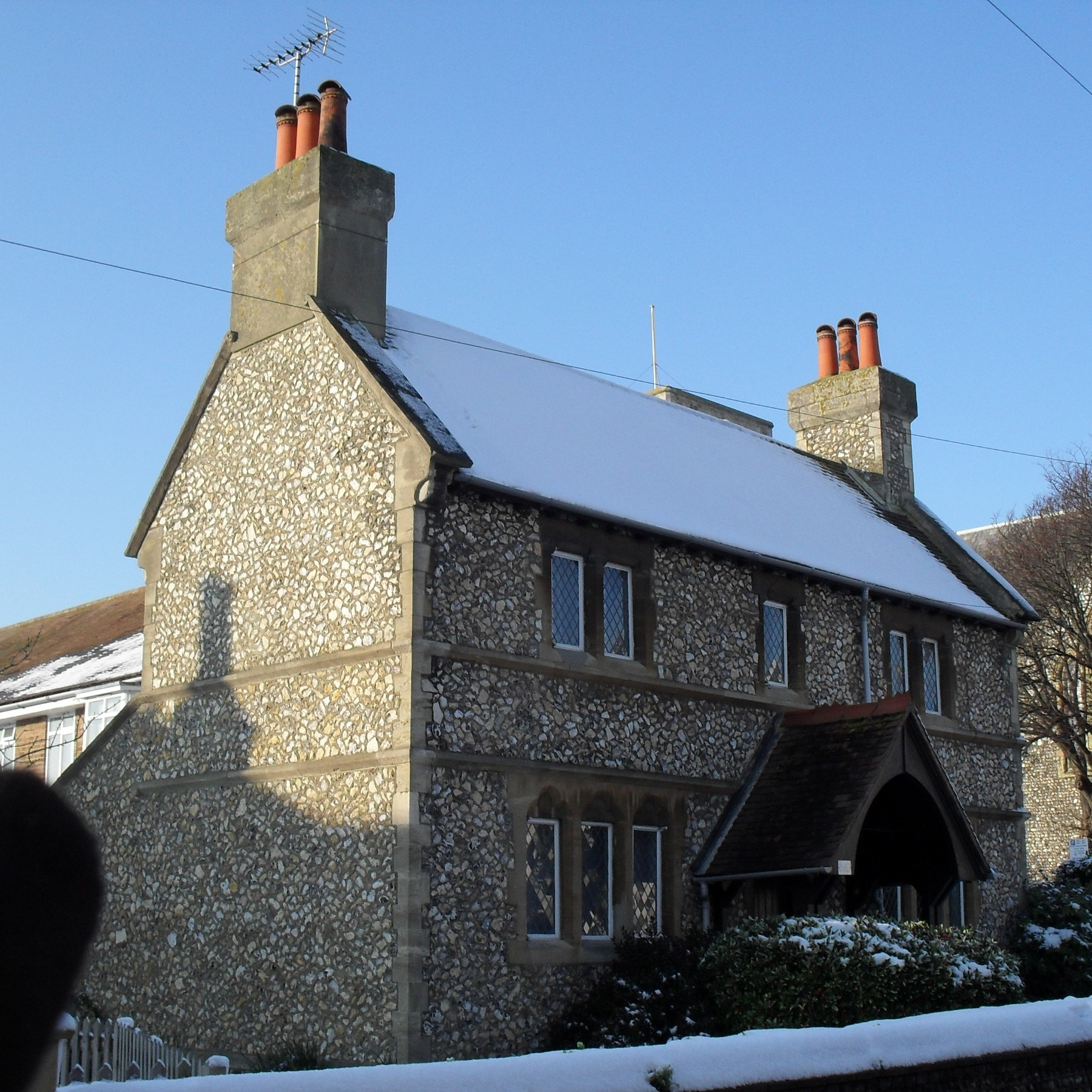 7 and 8 Humphrys Almshouses, Humphrys Road, Worthing, West Sussex, England. The only survivors from a set of eight built opposite Christ Church in the mid-19th century. These two were built in 1867; the other six, dating from 1858, were demolished in favour of modern replacements. Listed at Grade II by English Heritage (IoE Code 432658)